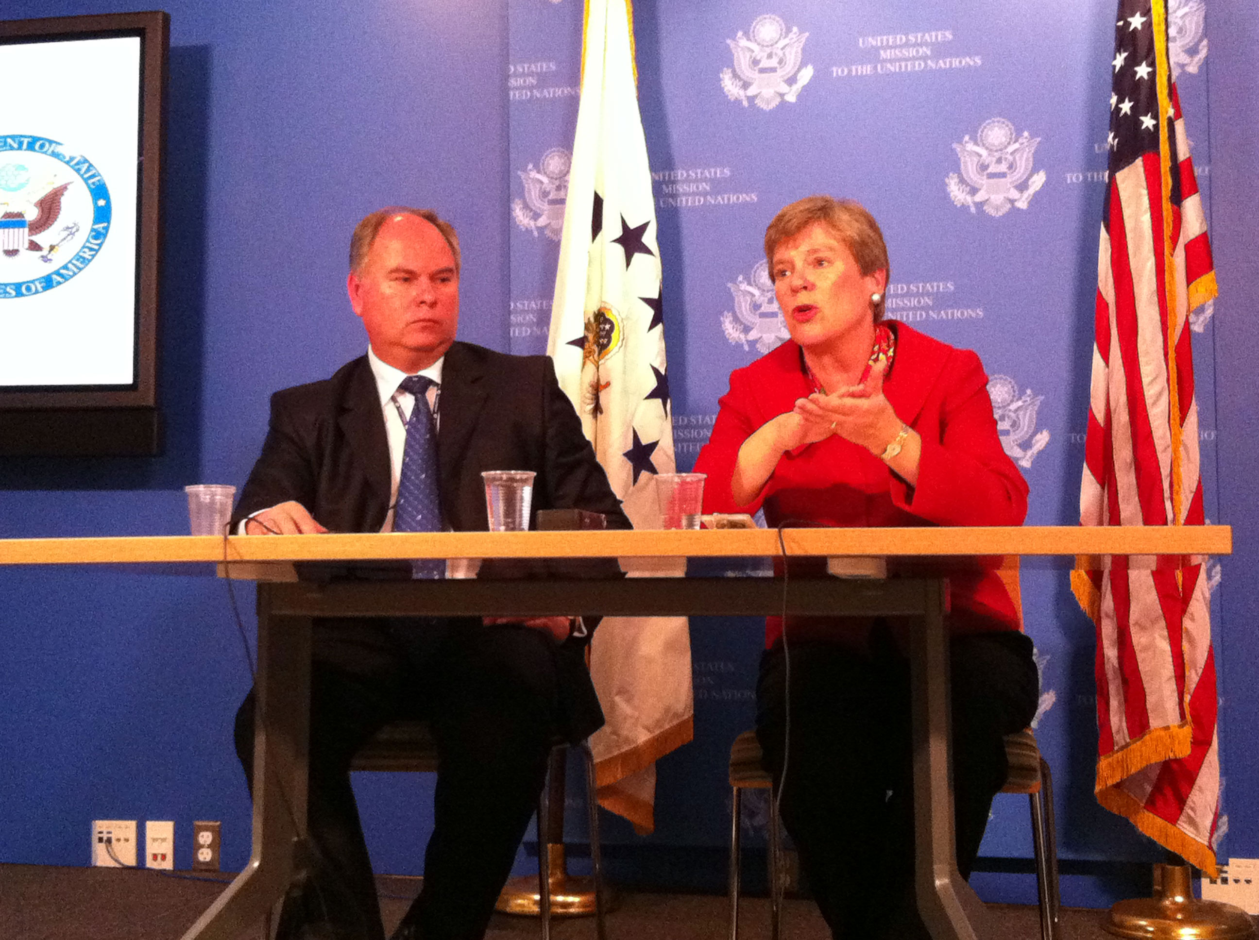 Assistant Secretary of State for Arms Control, Verification and Compliance (AVC) Rose Gottemoeller discusses implementation of the new START Treaty at the New York Foreign Press Center in New York, New York, on October 20, 2011. [State Department photo/ Public Domain]